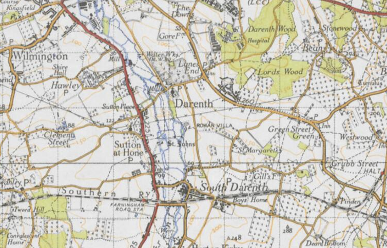 Map image was taken from Ordnance Survey, showing Darenth and surrounding area in 1945.